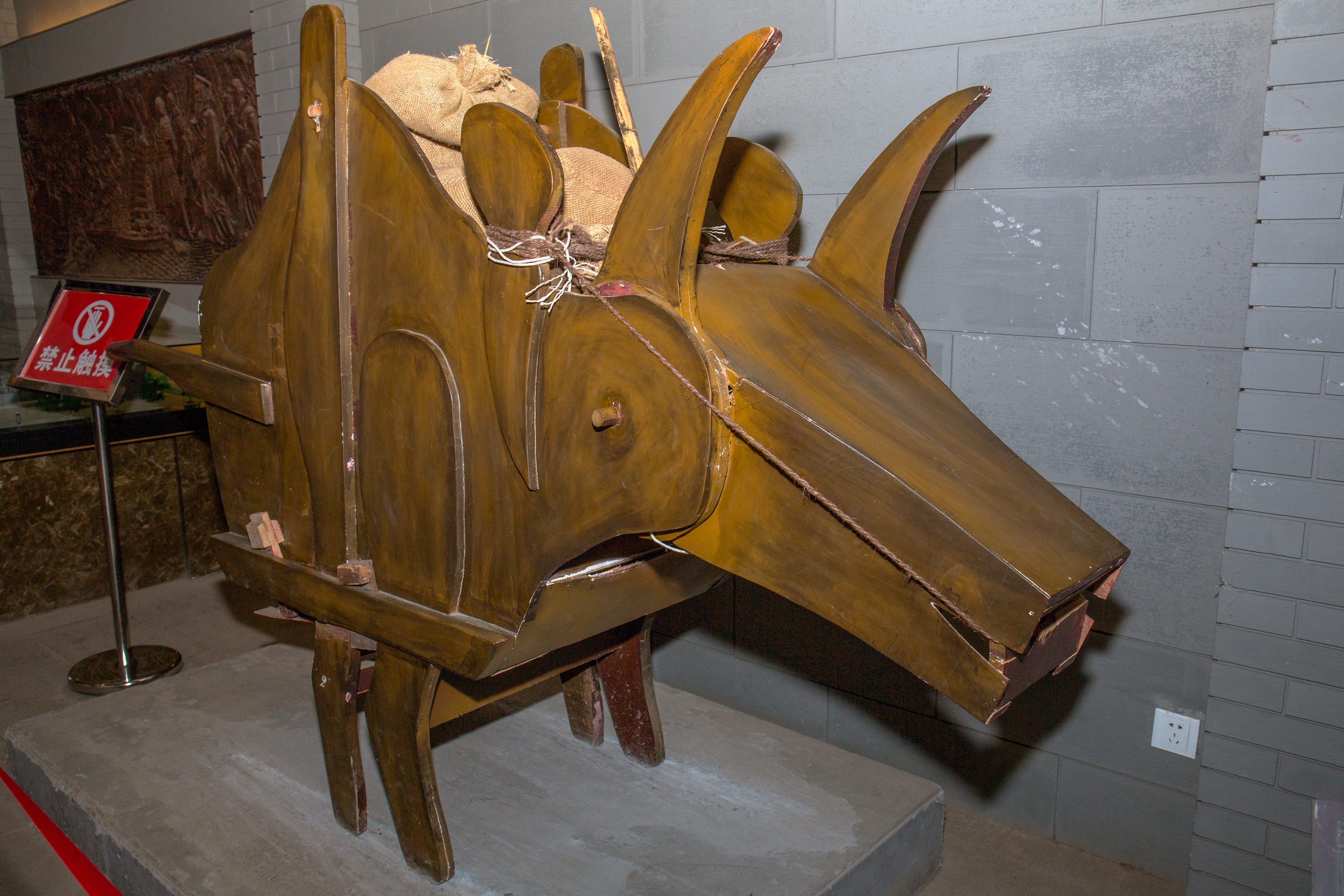 Wooden ox (木牛)